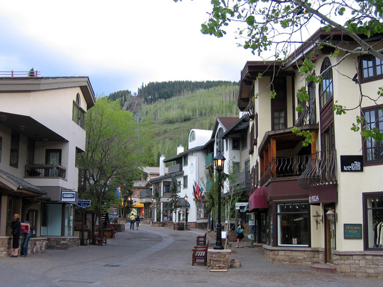 Shops and restaurants in Vail Village, Colorado.